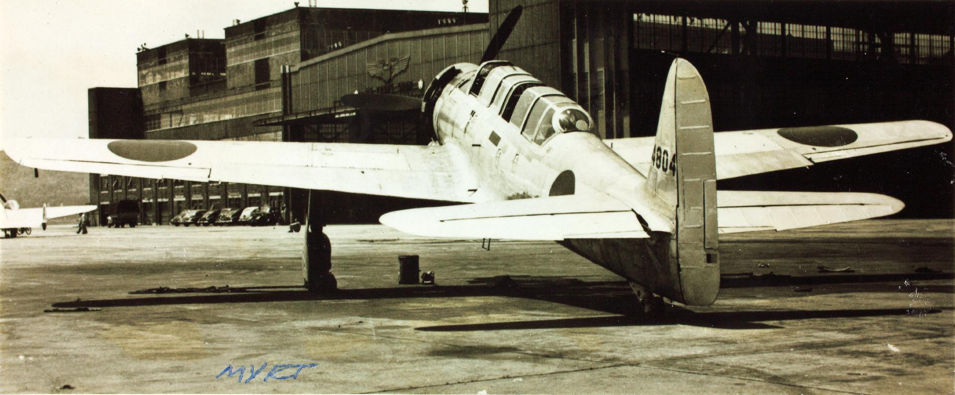 Nakajima Saiun, C6N